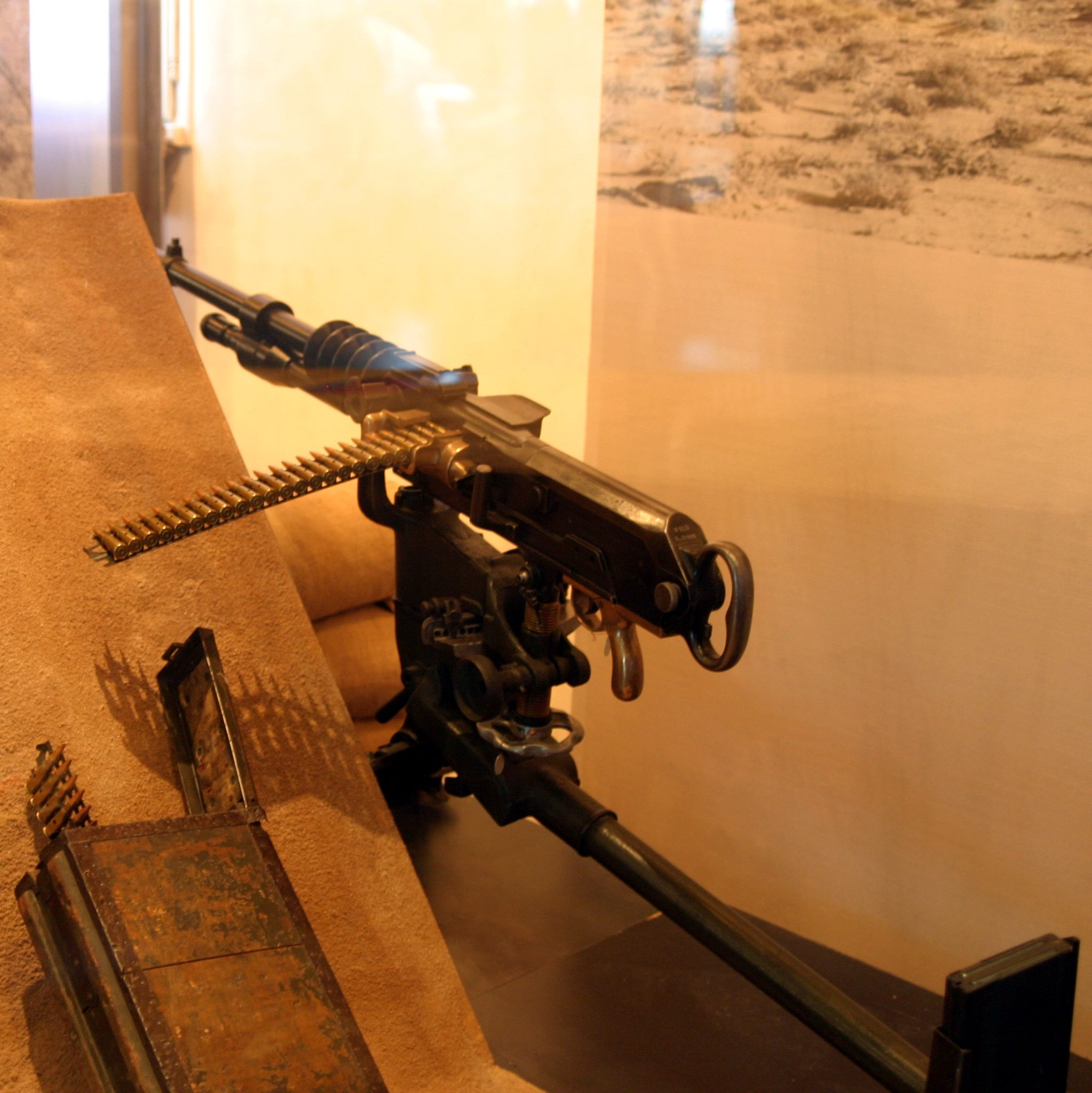 This image was taken at the Musée de l'Armée, Paris.